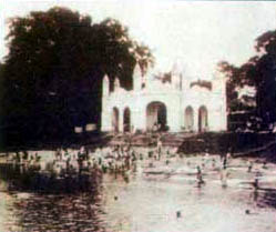 Known as Gateway of Assam. The photographs is taken in early 20th centuary